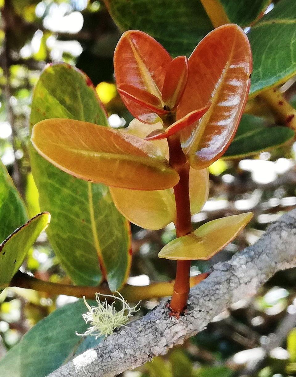 Diospyros revaughanii -Black River Gorges